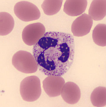 Segmented Neutrophilic Granulocyte surrounded by Erythrocytes.